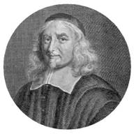 French Protestant theologian Jean Daillé (1594-1670)